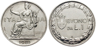 Kindom of Italy. Vittorio Emanuele III. 1900-1946. ::Nickel Lira Pattern. Rome mint. Dated 1921. :Italia seated left on cippus, holding Victory and laurel branch; PROVA; G ROMAGNOLI A MOTTI INC in field :Crowned arms within wreath :::R. Pagani -; Simonetti 153/1; KM Pr 27